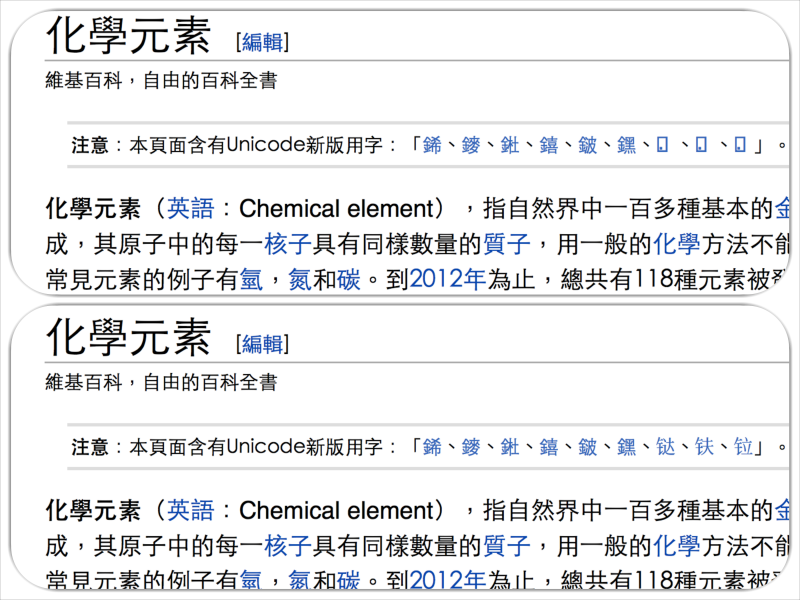 screenshot of wikipedia, the Chinese ver of chemical element using Safari 7.0.1 and OS X 10.9.1 using default font, those words in or after Extended C cannot be shown after installing HanaMin font, OS X will automatically use it and show the correct words